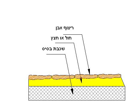 paving